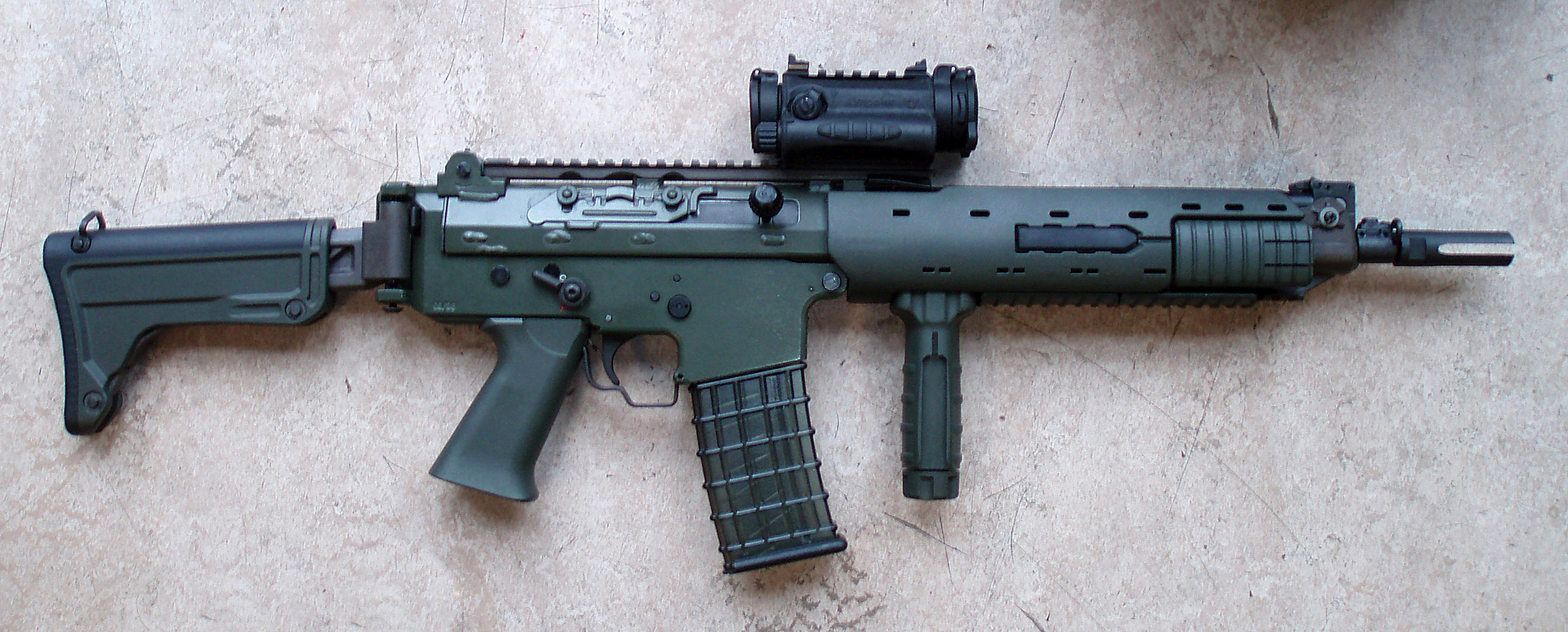 AK5C